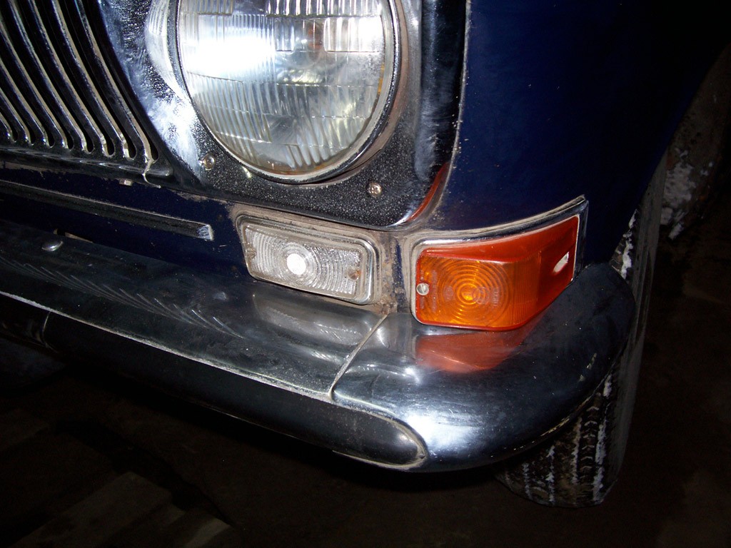 Gaz-24-flasher-and-parking-light